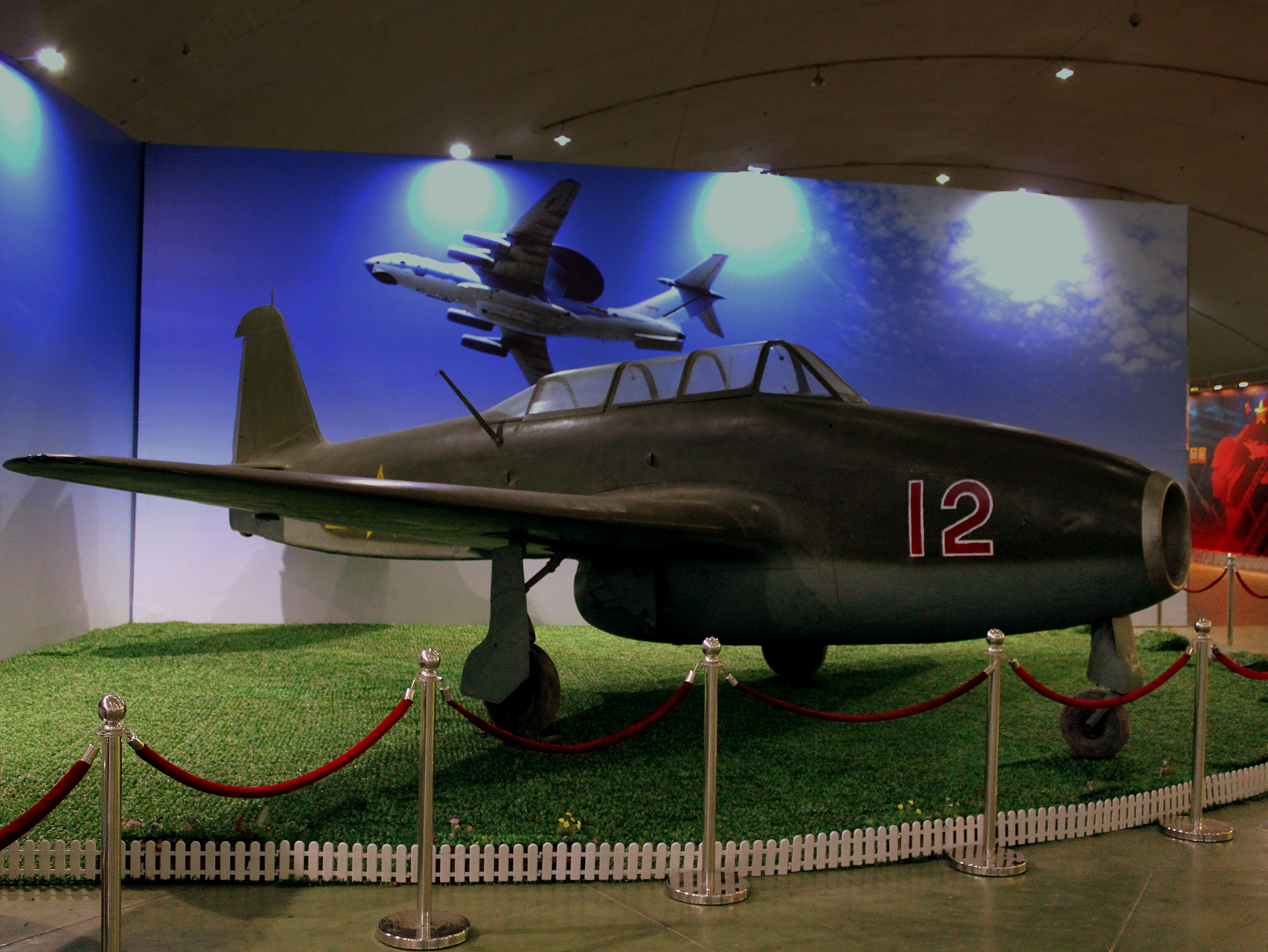 YAKOLEV 17UTI CHINESE AIR FORCE DATANSHAN AVIATION MUSEUM BEIJING CHINA OCT. 2012